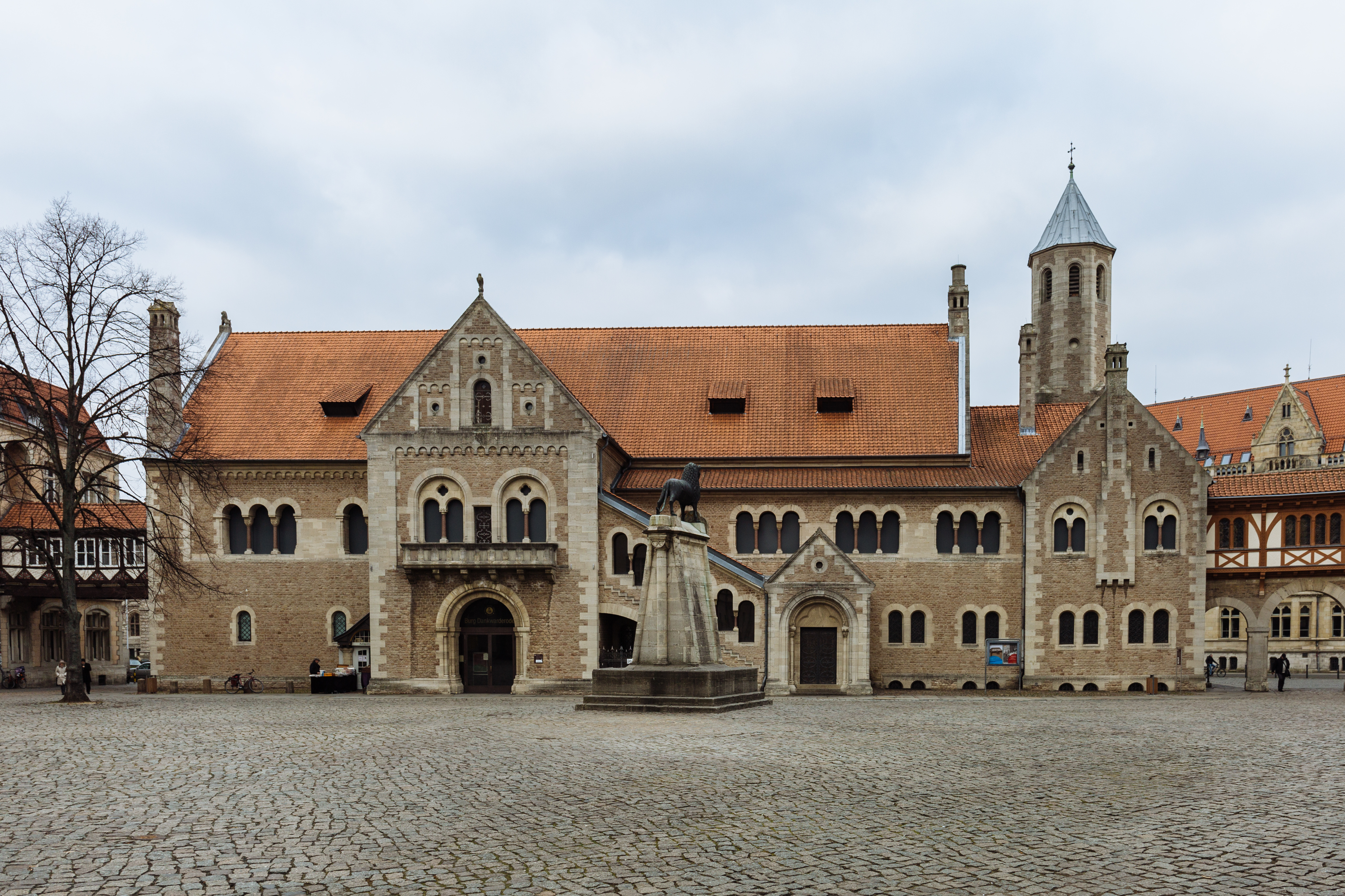 Dankwarderode Castle (German: Burg Dankwarderode) on the Burgplatz ("castle square") in Braunschweig (Brunswick), 2016